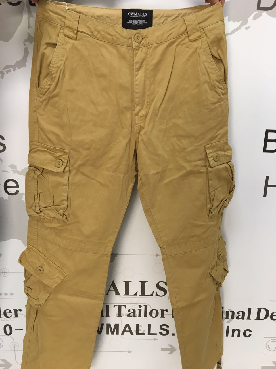 Khaki Cargo Pants